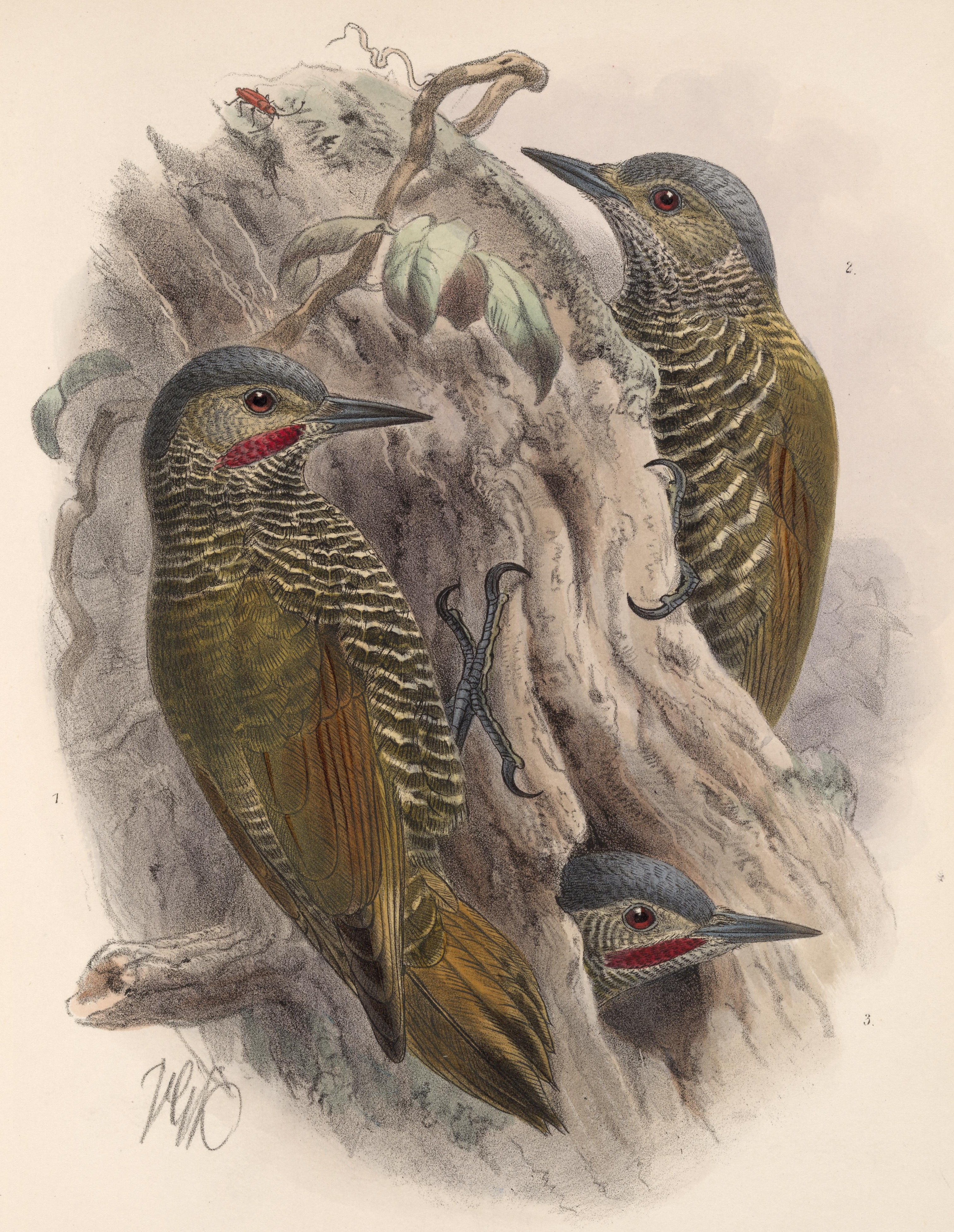 « Chloronerpes auricularius » = Colaptes auricularis (Grey-crowned Woodpecker)